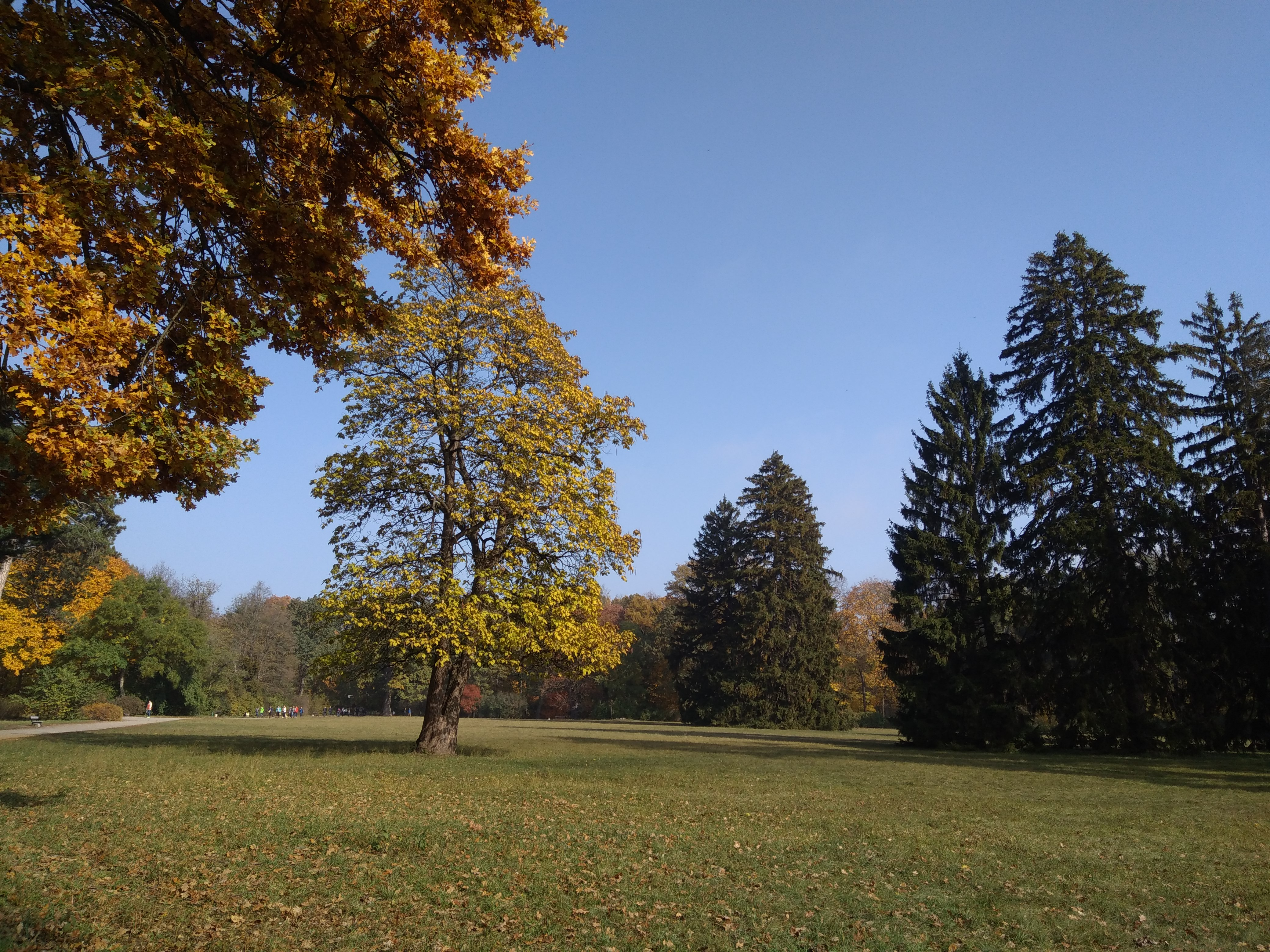 Big Glade (Alexandria Dendropark, Ukraine)